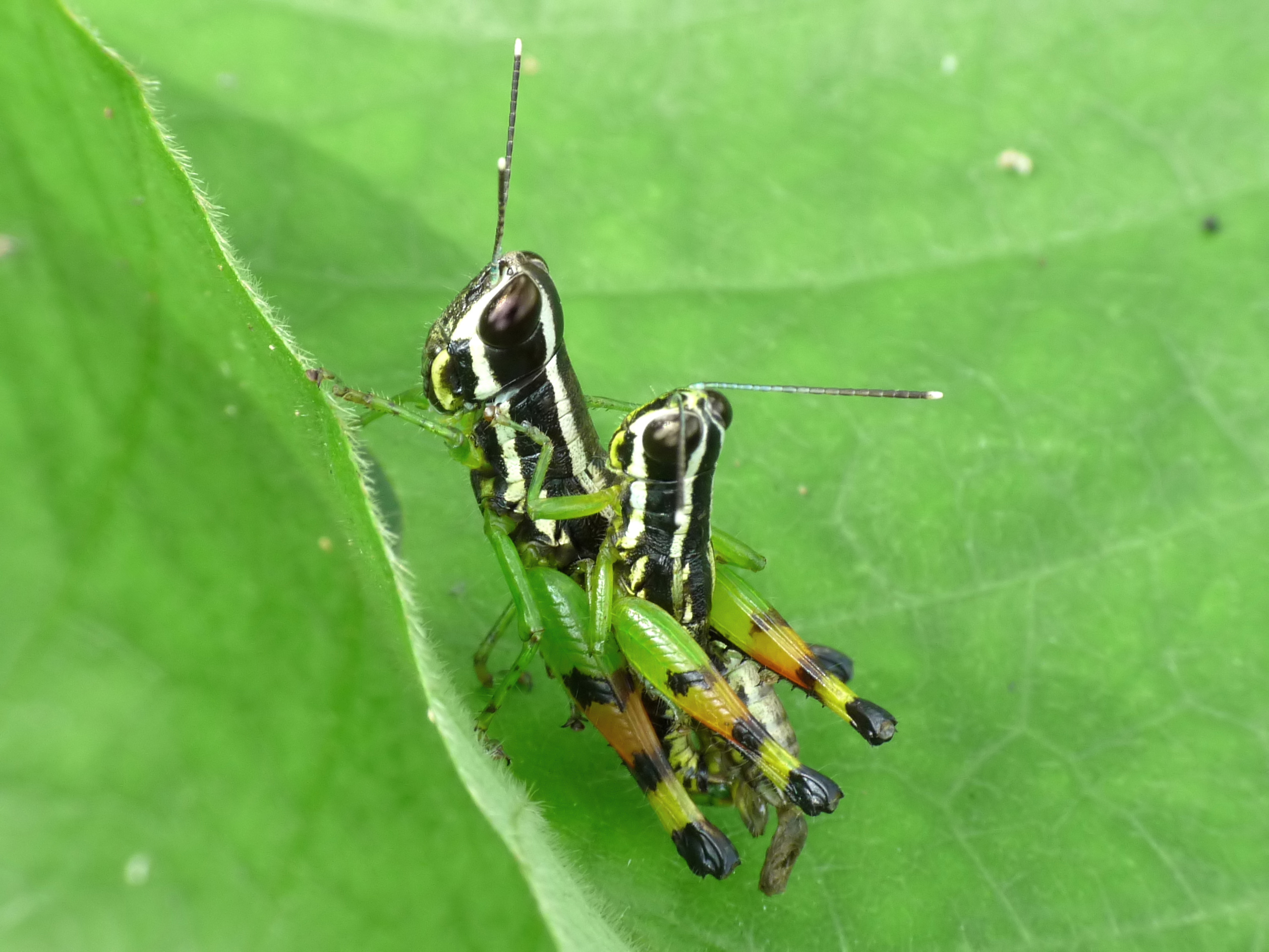 Probably a Traulia species in the Catantopinae subfamily.